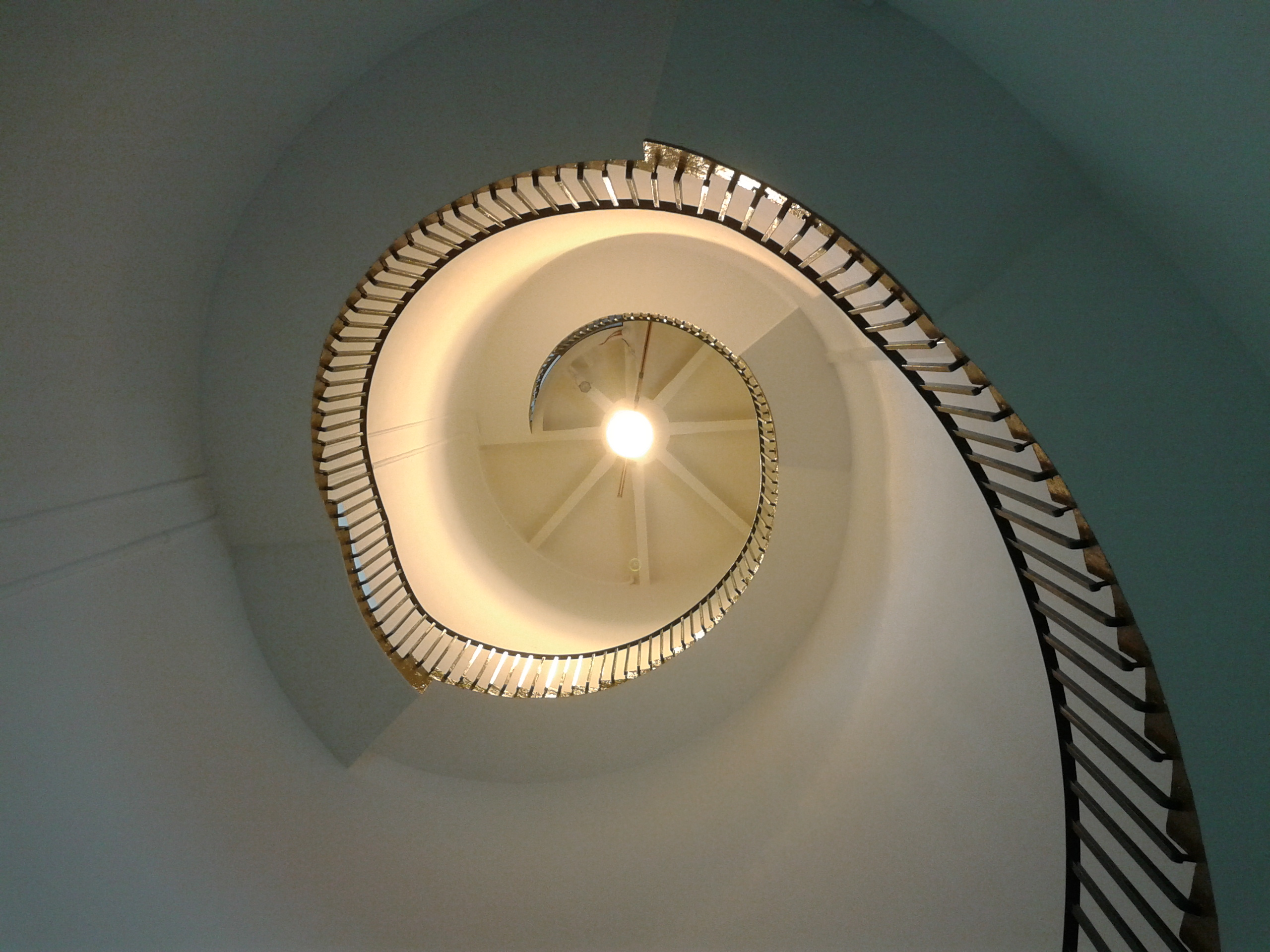 Southwold Lighthouse staircase